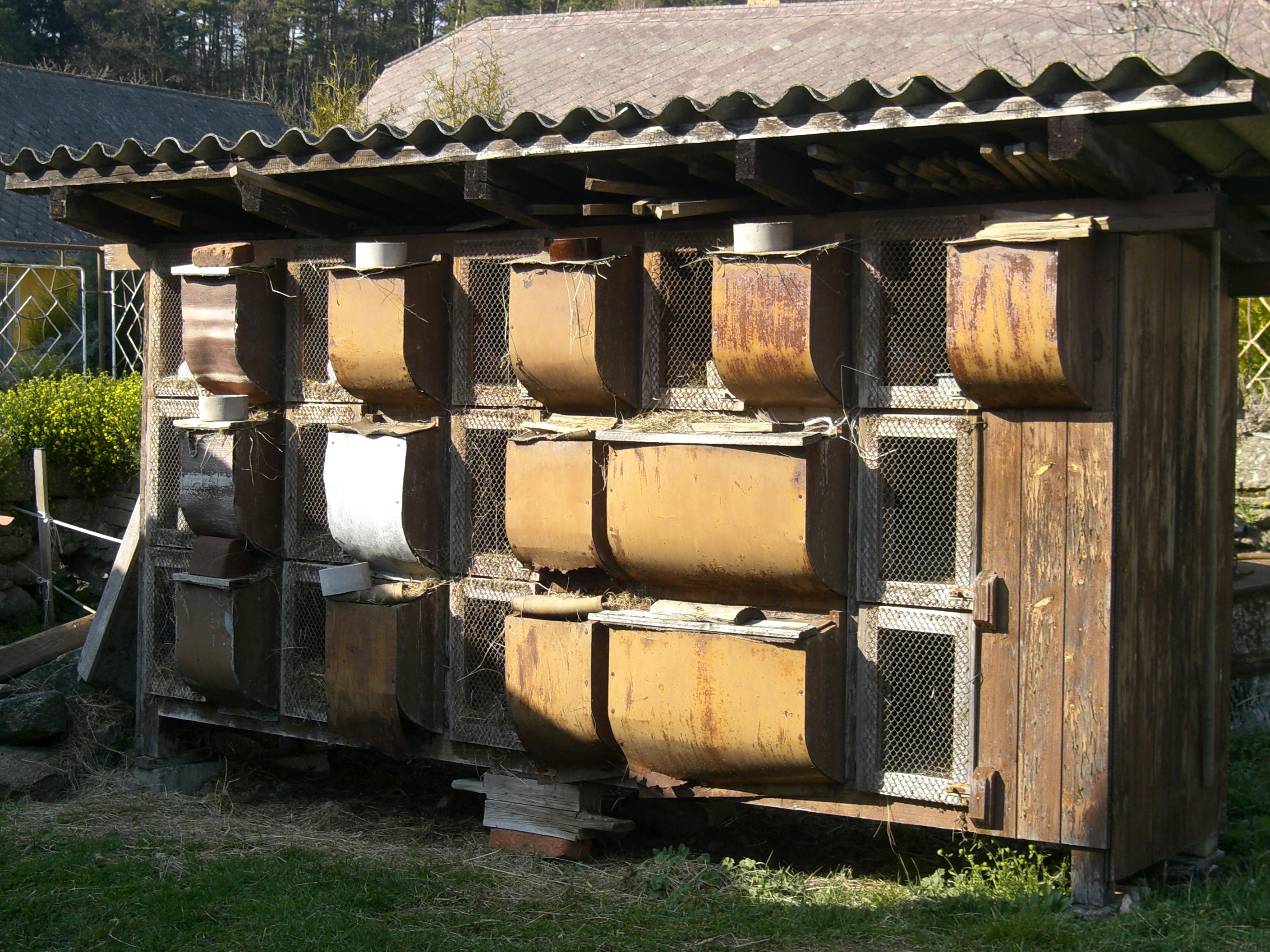 Bigger hutch (animal cage) for more rabbits. Czech countryside